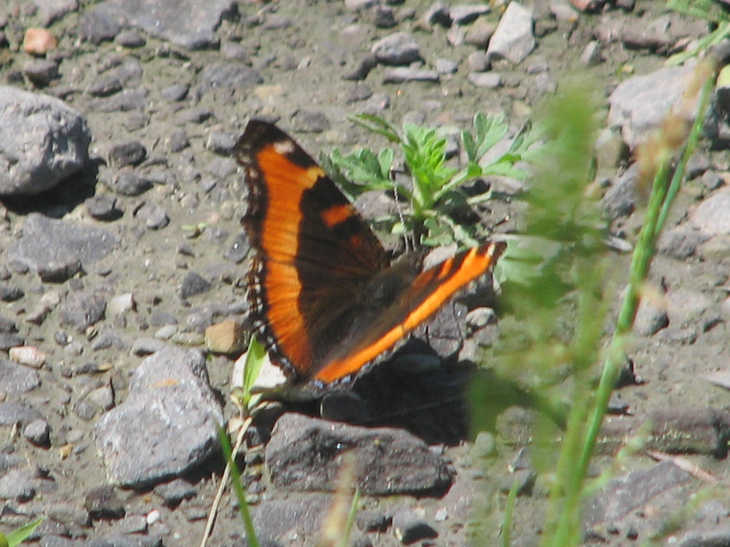 Milbert's Tortoiseshell (Aglais milberti) taken in Mer Bleue Conservation Area, Ottawa, Ontario, Canada